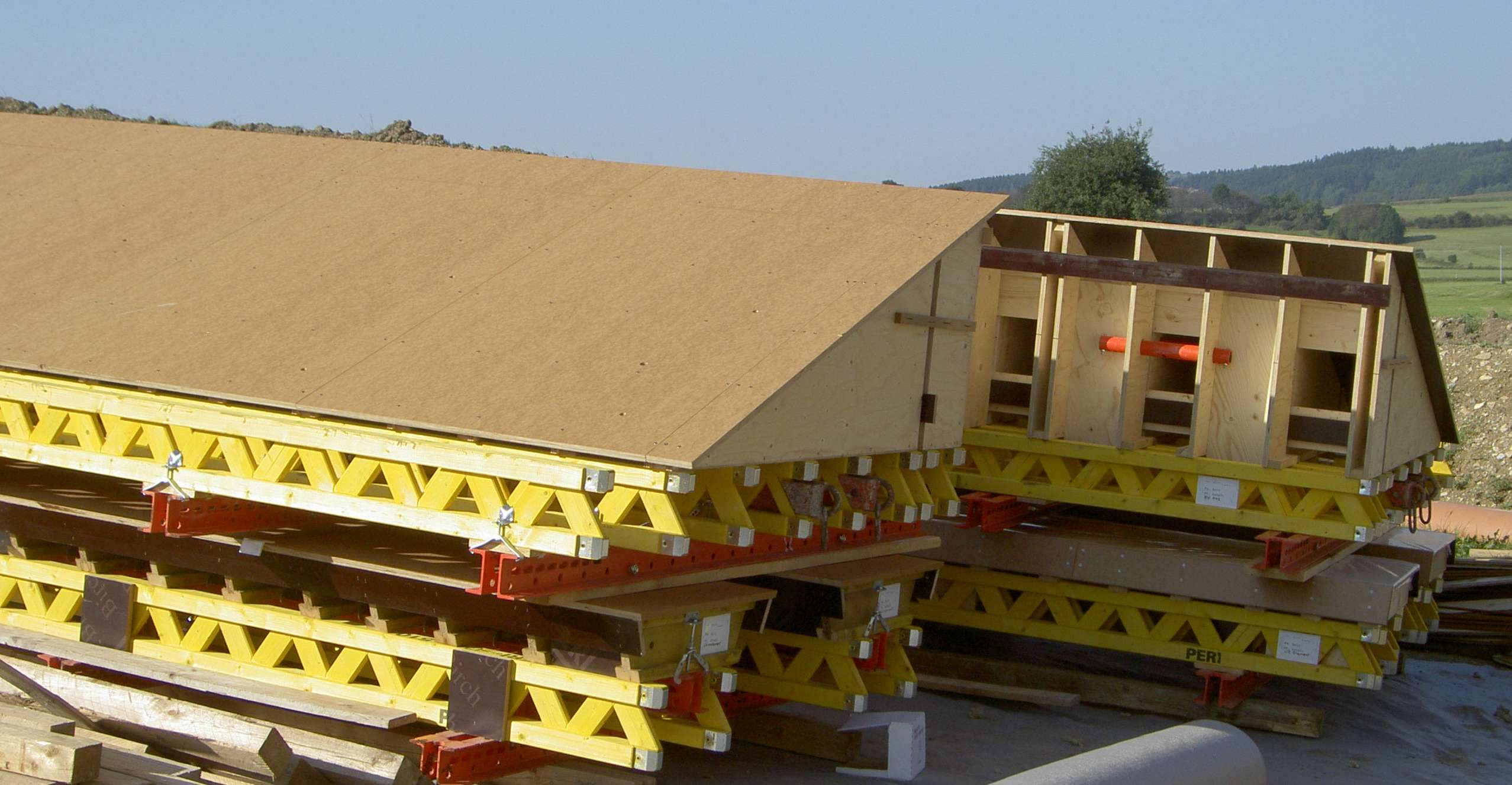 formwork of concrete bridge pillar